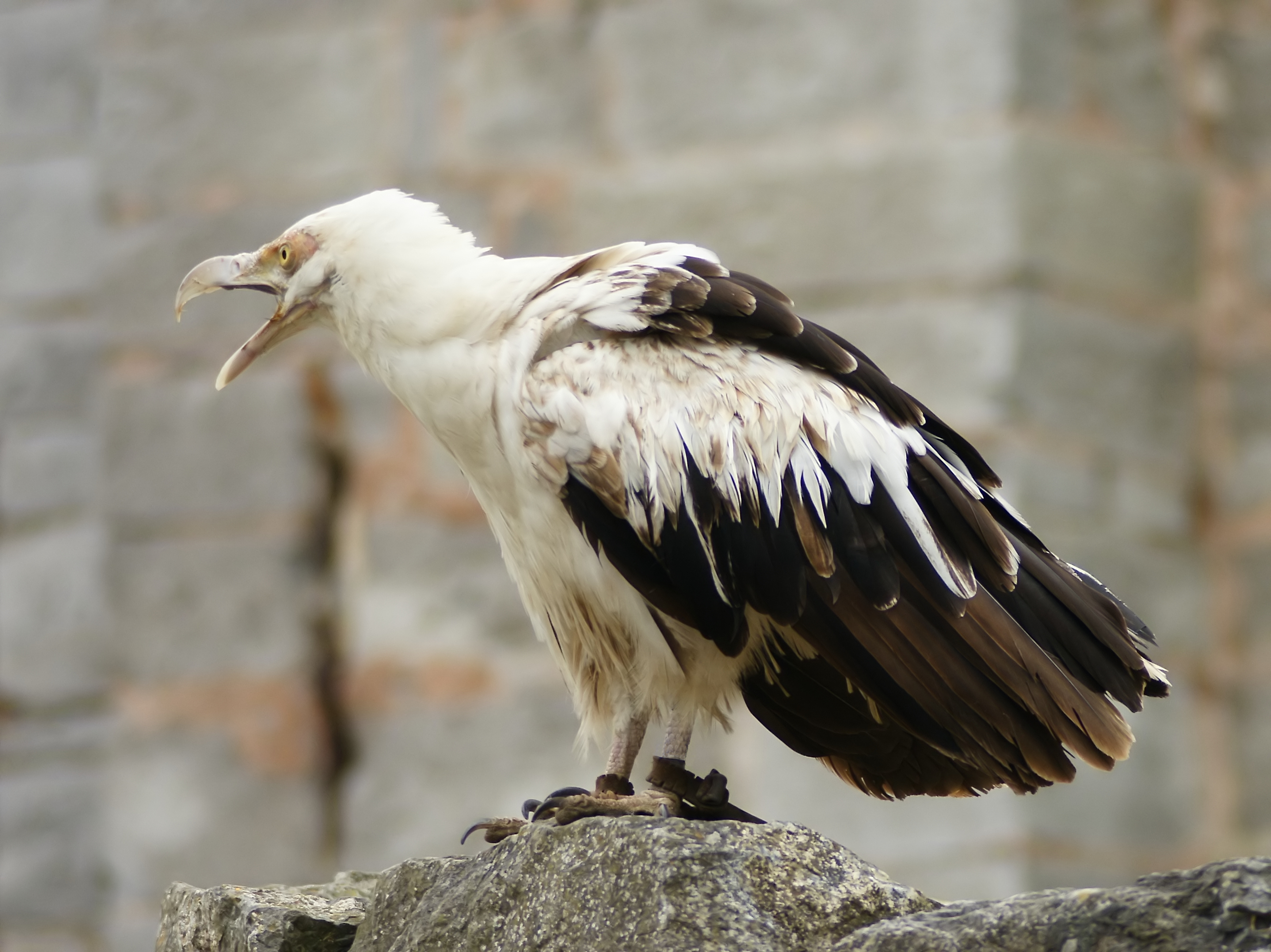 A sub-adult Palm-nut Vulture at Pairi Daiza, Brugelette, Belgium.